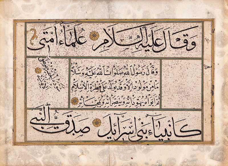 Calligraphy by Suyolcuzade Mustafa Eyyubi; Thuluth and Naskh. Size: 20x26 cm